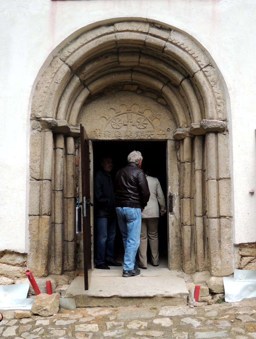 Zahradka near Ledeč nad Sázavou, St. Vitus church portal (13th century)